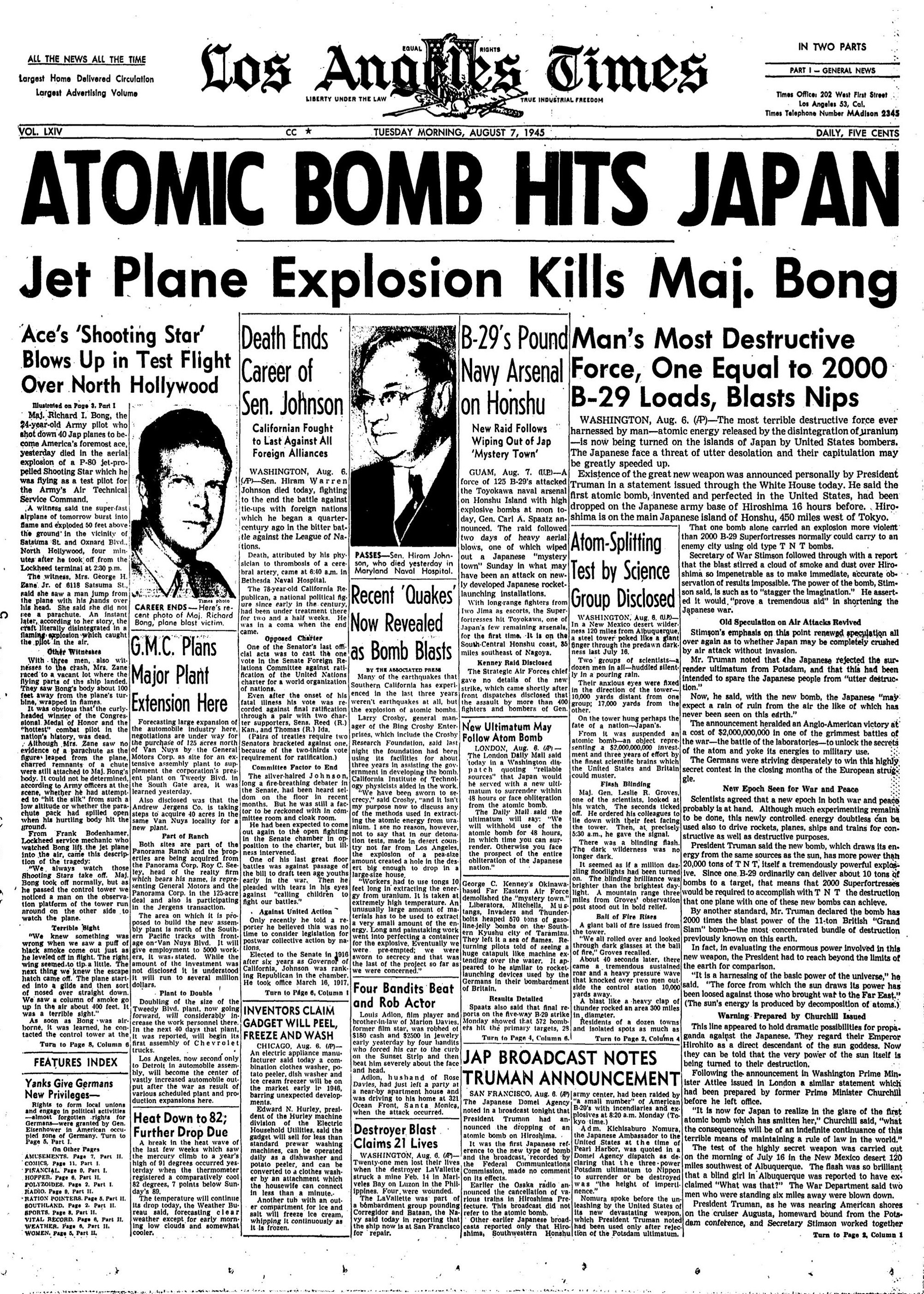 Front page of the Los Angeles Times, 6 August 1945